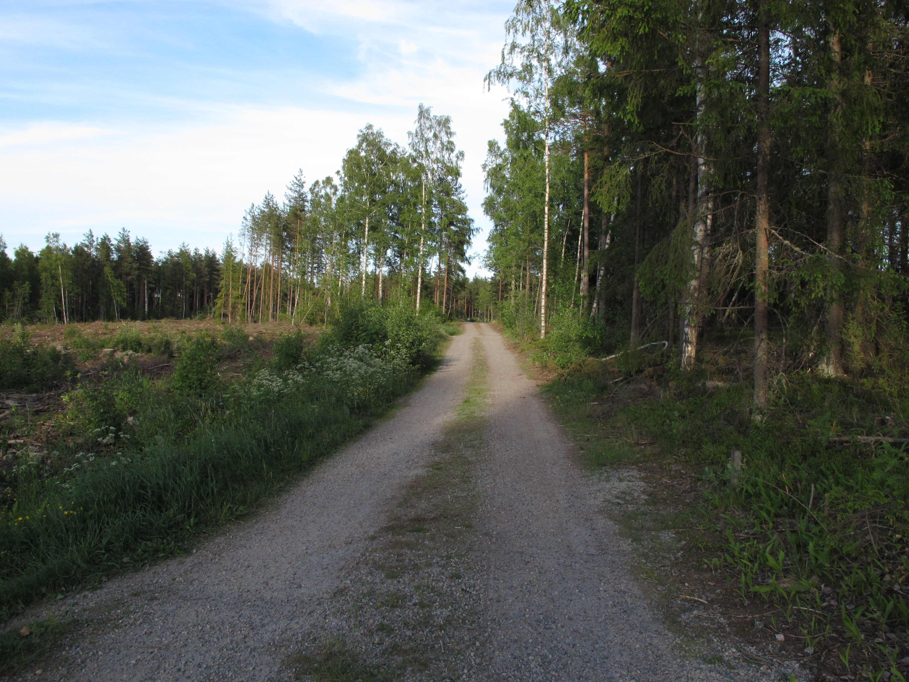 A preserved part of the Medieval Nunnapolku (A Nun Path) pilgrimage route in Rusko, Finland.